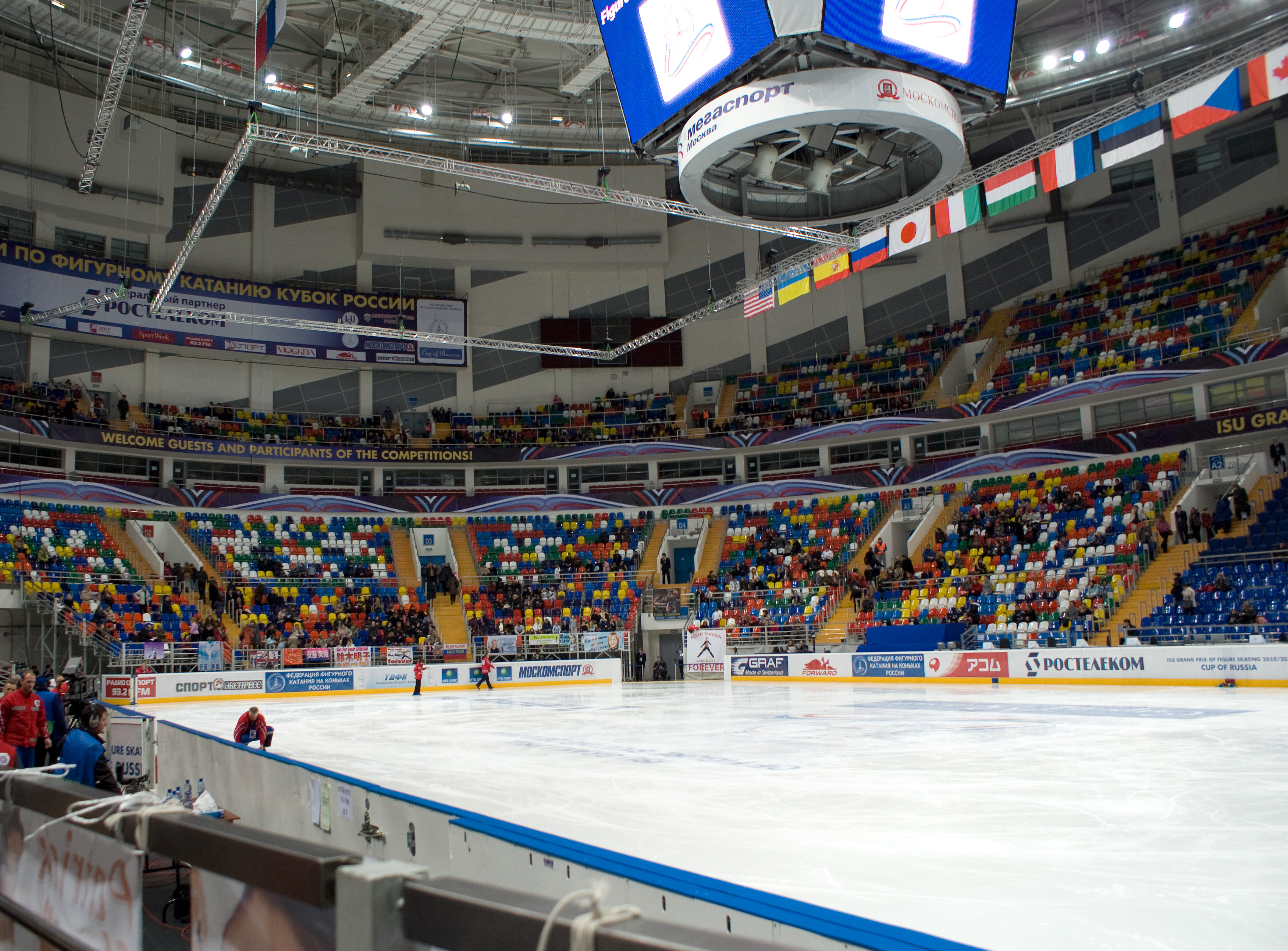 Megasport Arena in November during the Cup of Russia figure skating competition.